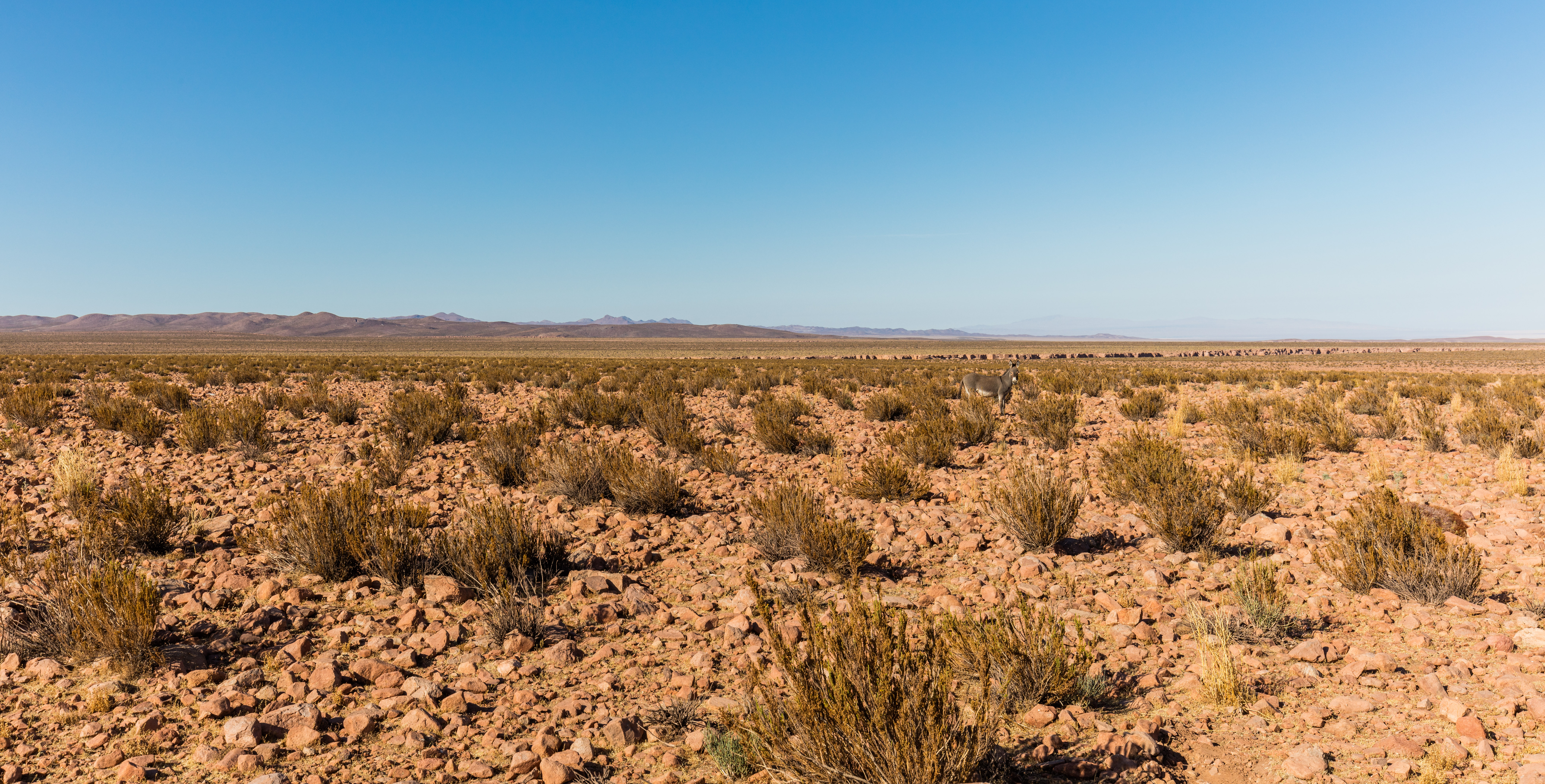 Typical landscape in the Atacama desert, the most arid place in the world, but with an special viewer, near Calama, northern Chile.